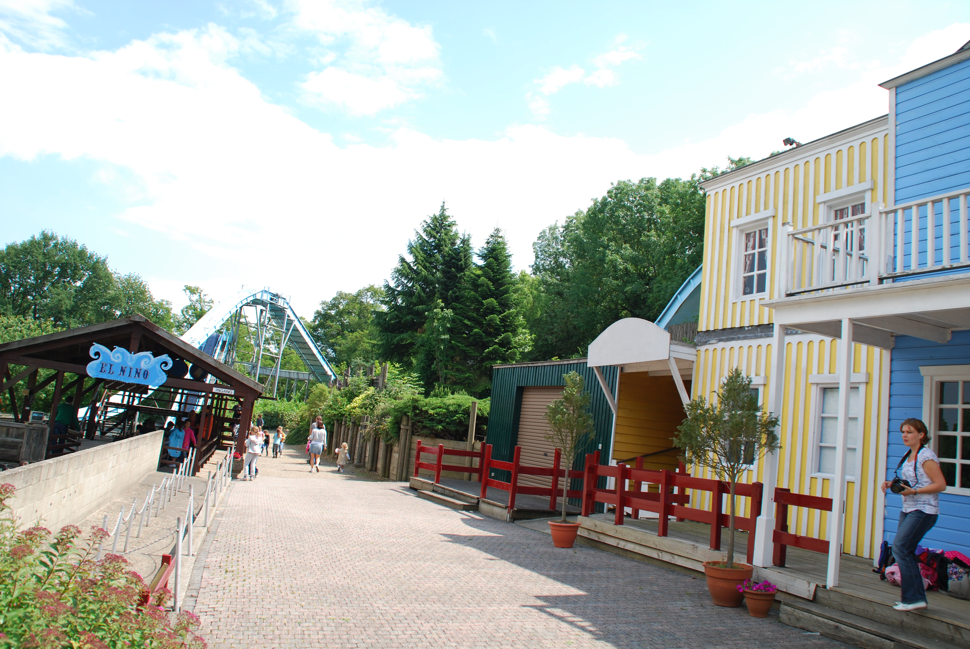 Sprookjesbos Valkenburg